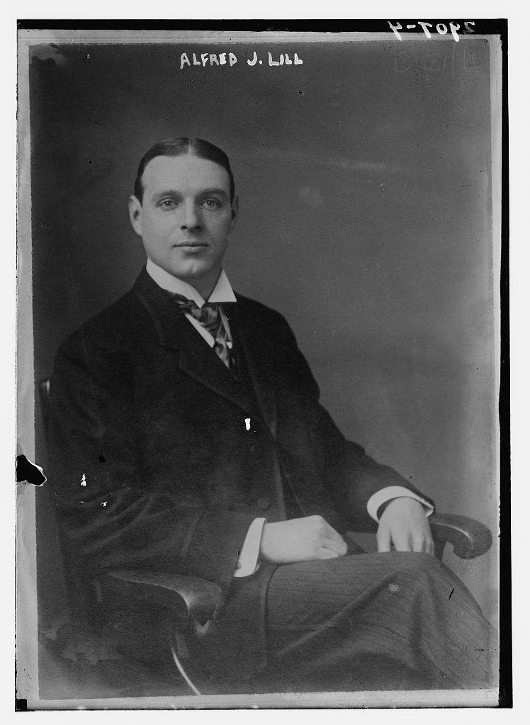 Alfred John Lill circa 1913